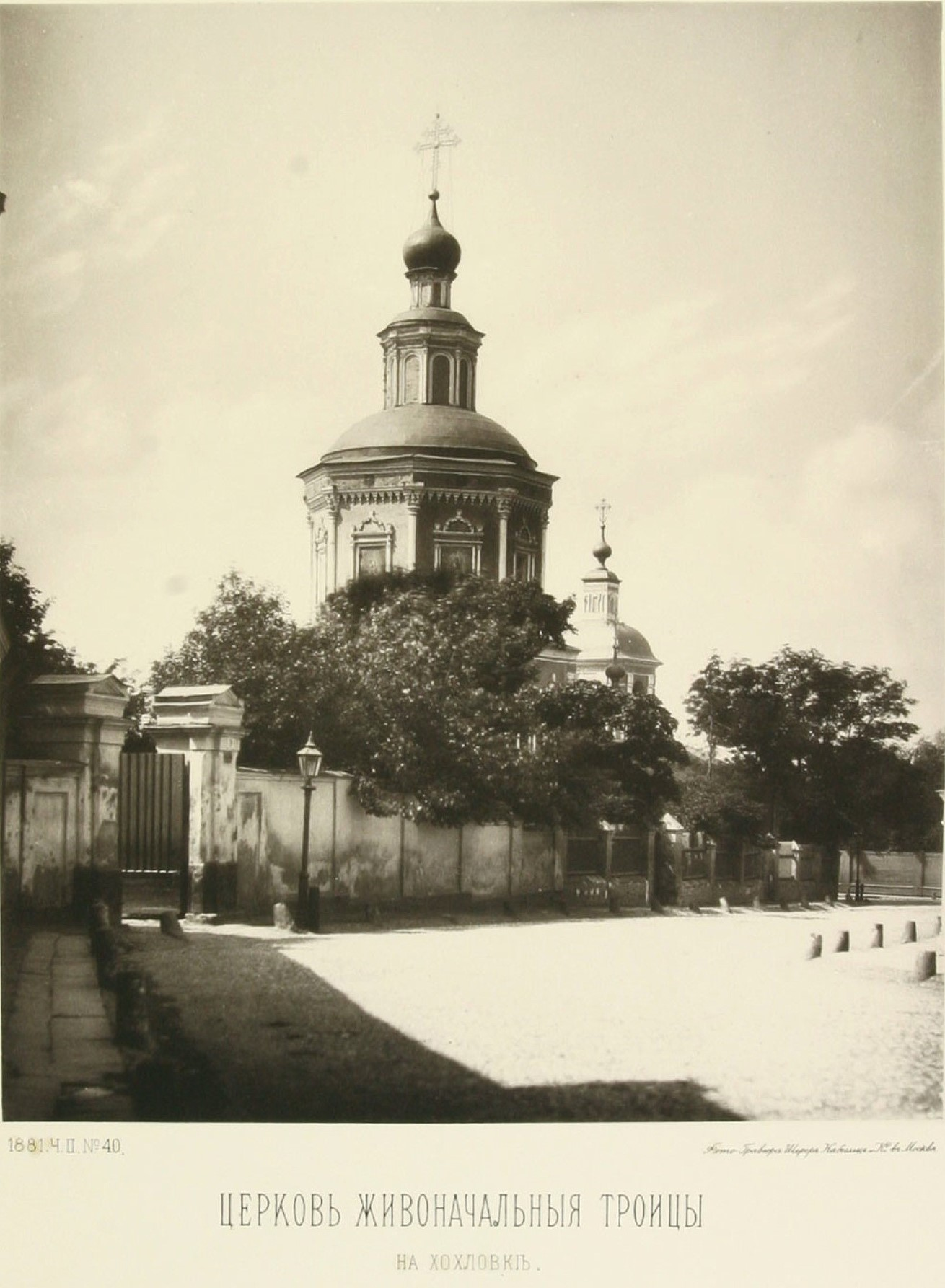 Church of Trinity in Khokhly, Moscow.